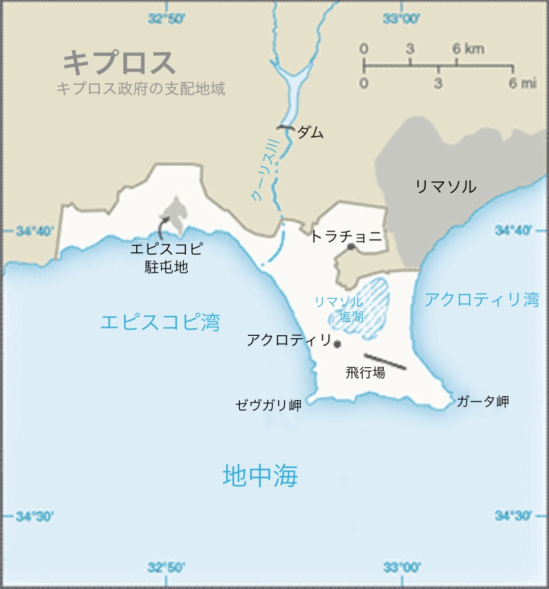 Map of Akrotiri in Japanese (from CIA World Factbook)